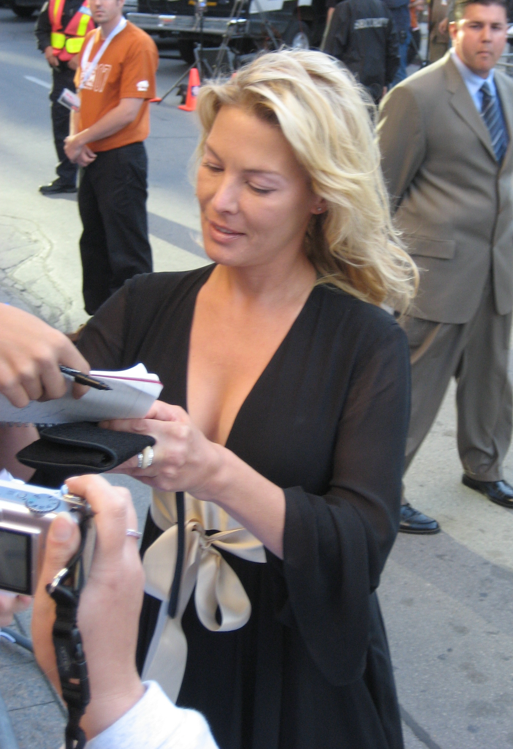 Deborah Kara Unger at the premiere of Cassandra's Dream, Toronto Film Festival 2007